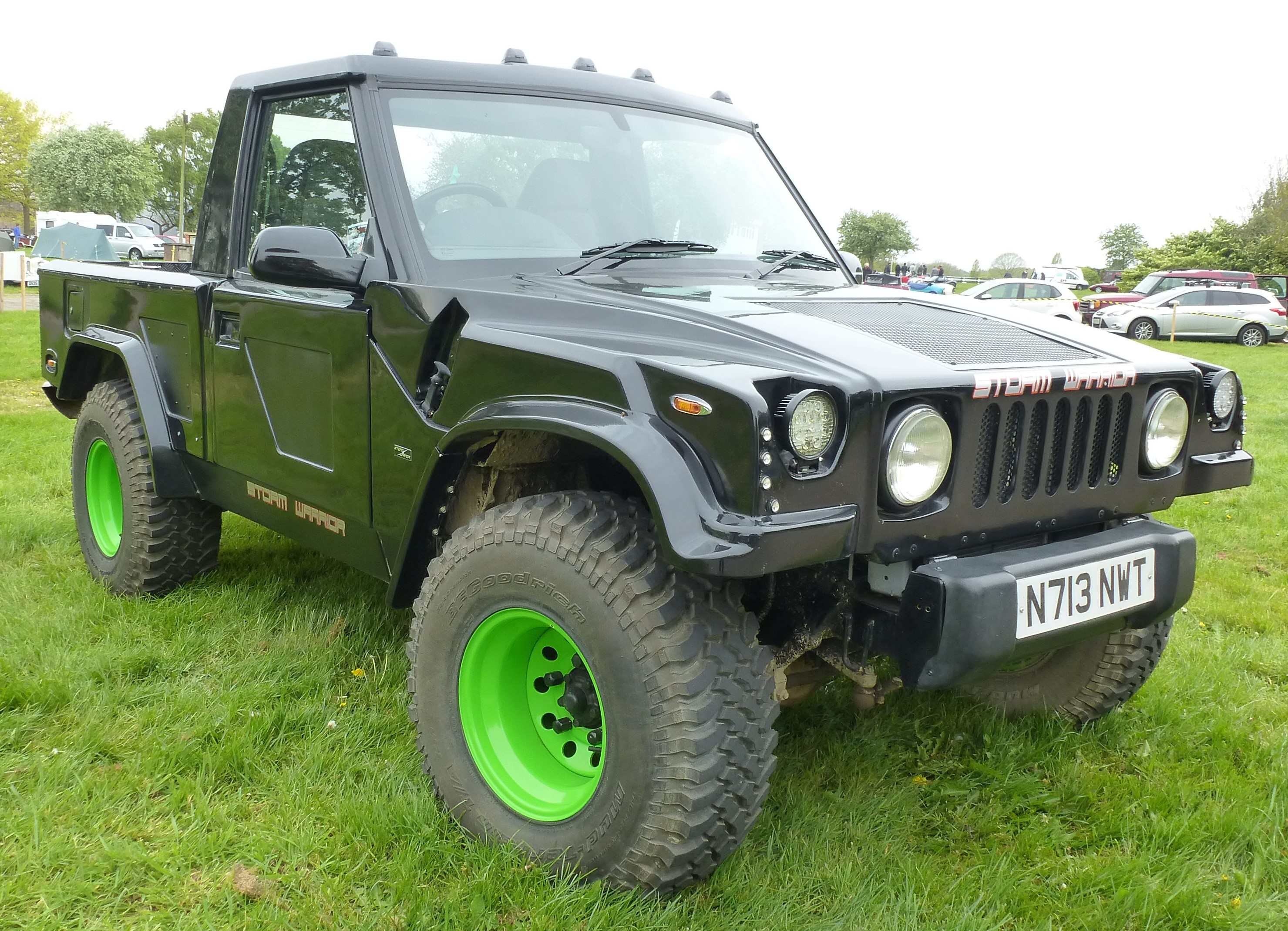 Storm Warrior